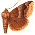 PLATE CCXXI.